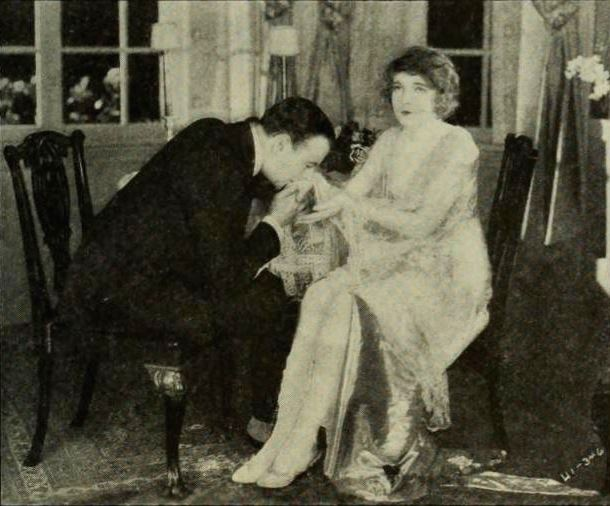 Still from the American film Way Down East (1920) with Lowell Sherman and Lillian Gish, from an article on film censorship on page 41 of the October 1922 Photoplay. The article noted that the Pennsylvania film censor board removed all references to the sham marriage and honeymoon and the character's resulting pregnancy, destroying an integral part of the plot.